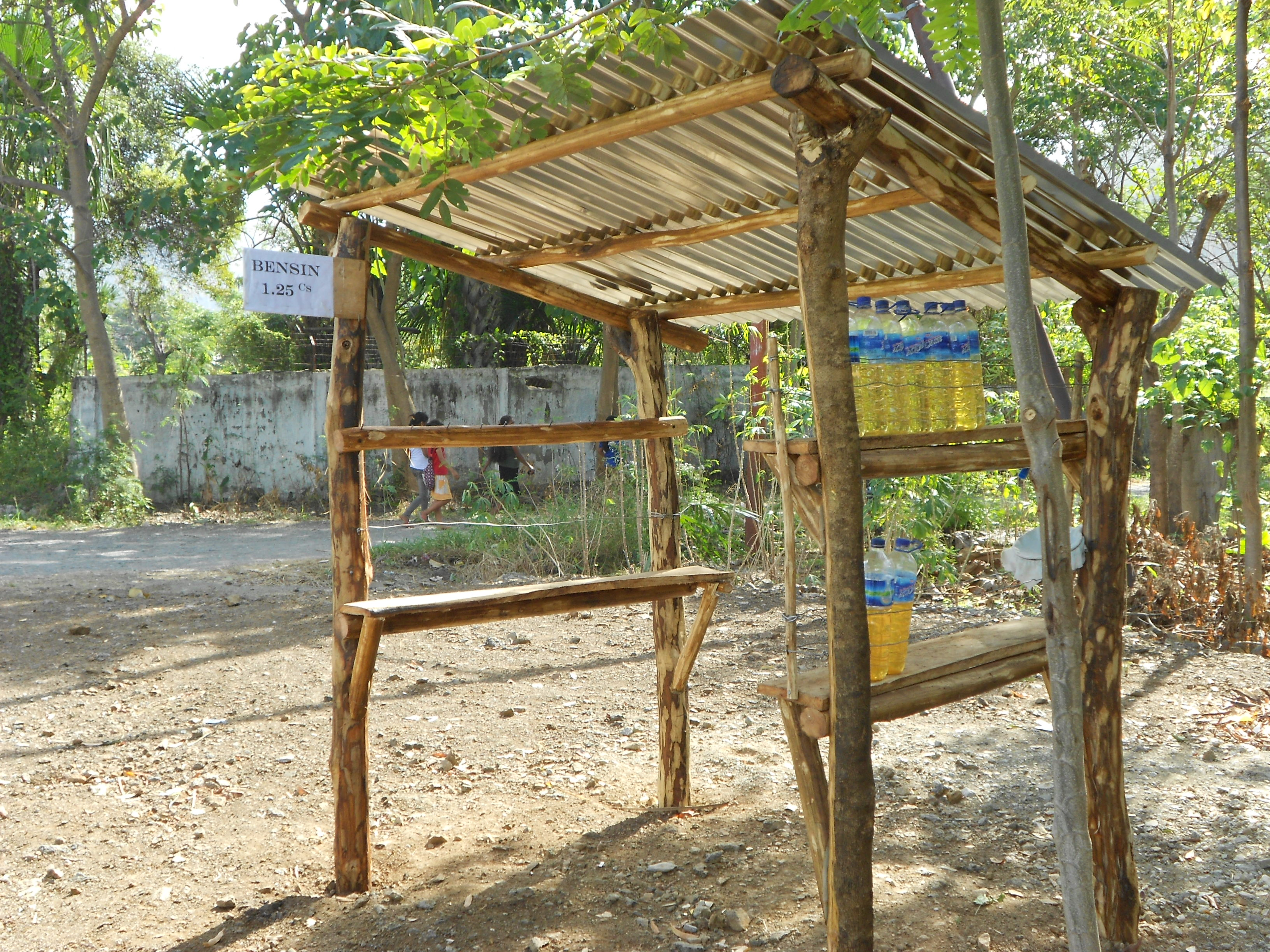 Petrol for sale, East Timor